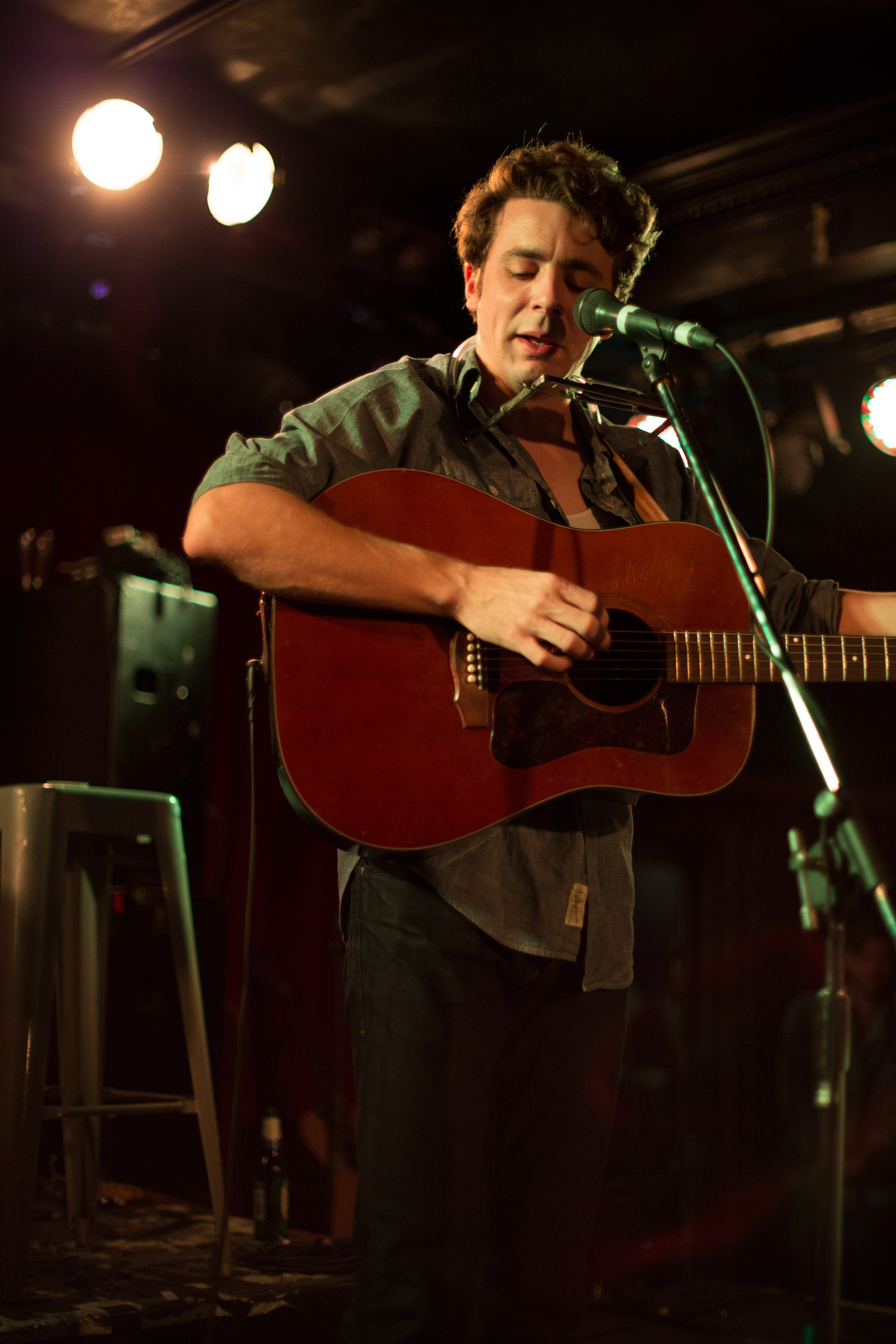 November 23, 2012